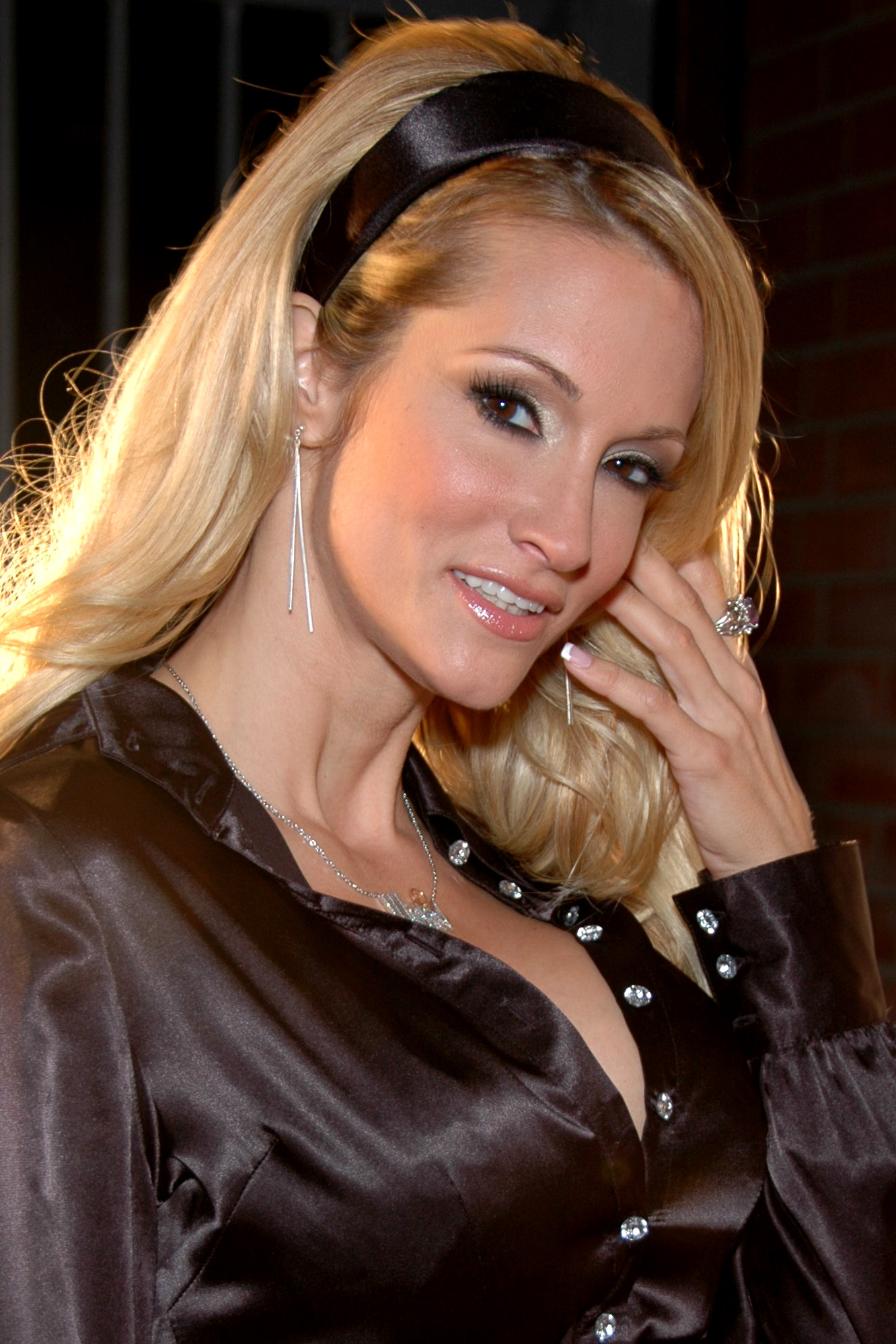 Jessica Drake attending the "Cuties for Canines" charity event, West Los Angeles, CA on 11/16/2007 - Photo by Glenn Francis of